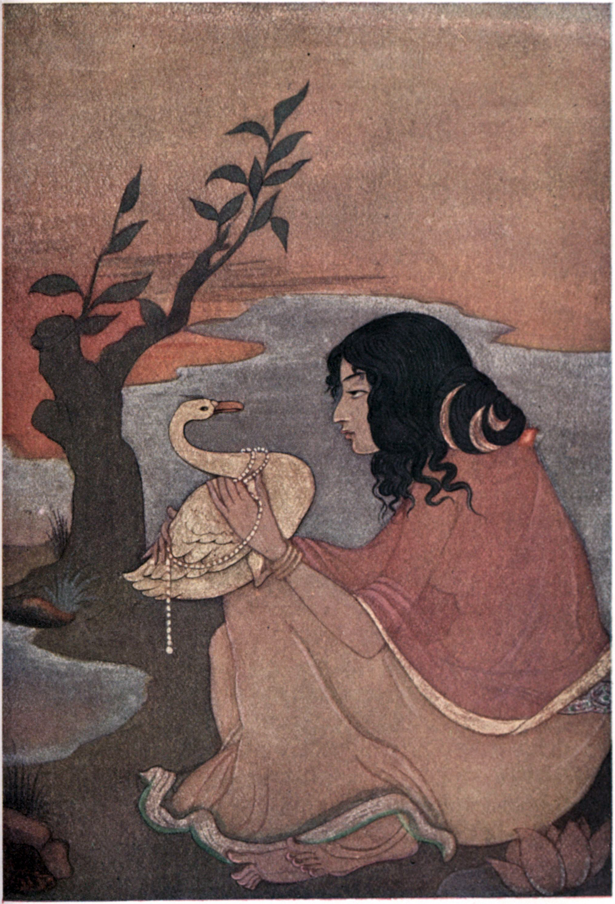 Myths of the Hindus & Buddhists (1914) Author: Nivedita, Sister, 1867-1911; Coomaraswamy, Ananda Kentish, 1877-1947 Subject: Mythology, Hindu; Mythology, Indic; Buddha and Buddhism Publisher: London Harrap Possible copyright status: NOT_IN_COPYRIGHT Language: English Call number: AAV-0085 Digitizing sponsor: MSN Book contributor: Robarts - University of Toronto Collection: robarts; toronto Full catalog record: MARCXML [Open Library icon]This book has an editable web page on Open Library. Be the first to write a review Downloaded 855 times Reviews Selected metadata Identifier: mythsofthehindus00niveuoft Copyright-evidence-operator: University of Toronto scanning center Copyright-region: US Copyright-evidence: Evidence reported by University of Toronto scanning center for item mythsofthehindus00niveuoft on May 12, 2006; no visible notice of copyright and date found; stated date is 1914; not published by the US government; Have not checked for notice of renewal in the Copyright renewal records. Copyright-evidence-date: 2006-05-12 20:39:44 Scanningcenter: UofT Operator: scanner-joanna-woodcock Mediatype: texts Scanner: uoft3 Scandate: 20060517130853 Imagecount: 518 Sponsordate: 20060531 Filesxml: Thu Mar 18 6:17:31 UTC 2010 Ppi: 500 Identifier-access: Identifier-ark: ark:/13960/t50g4p70x